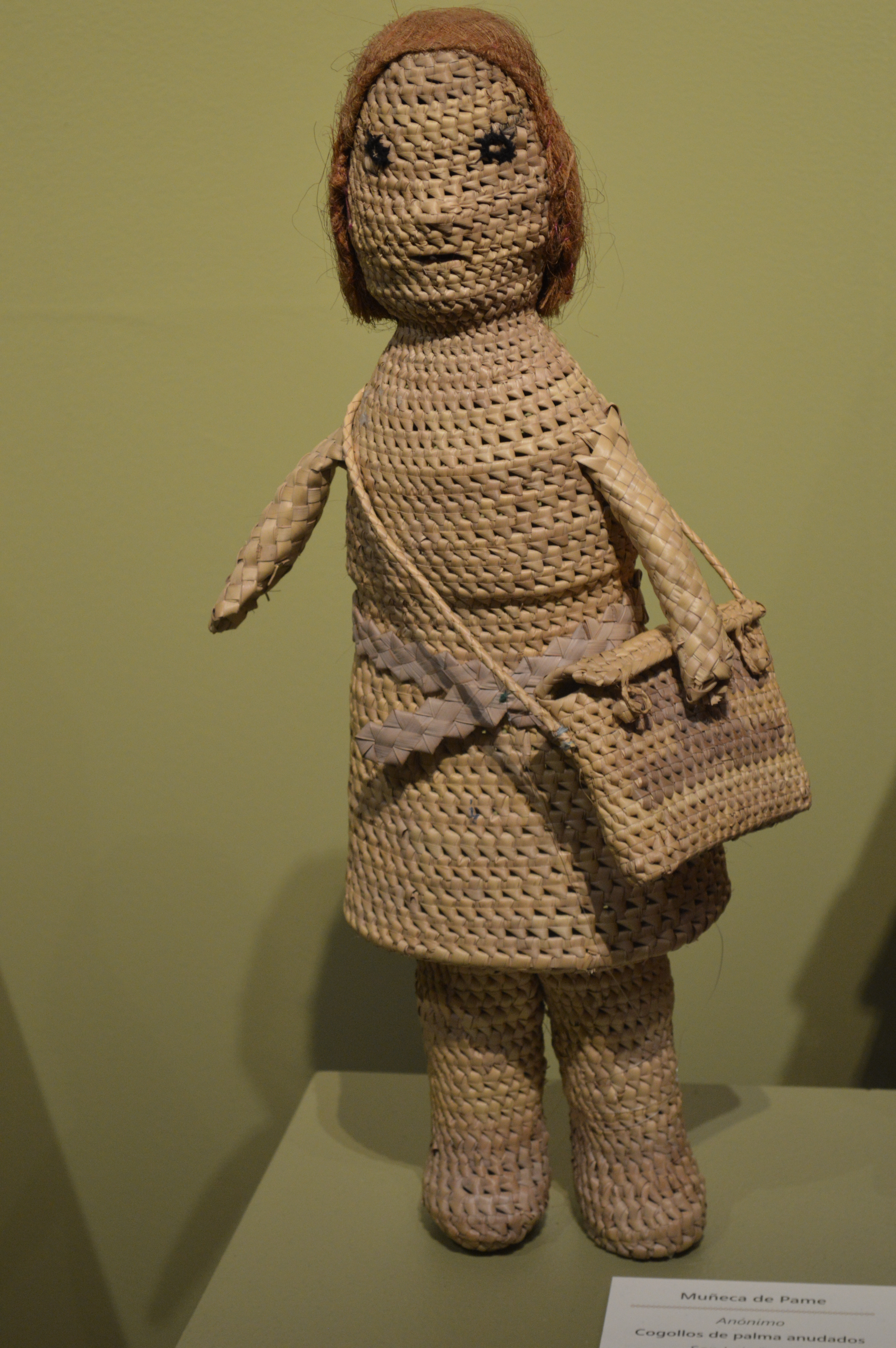 Doll made of knotted plant fiber of the Pame people in San Luis Potosi at the El Norte, su materia, su artesania at the Museo de Arte Popular in Mexico City